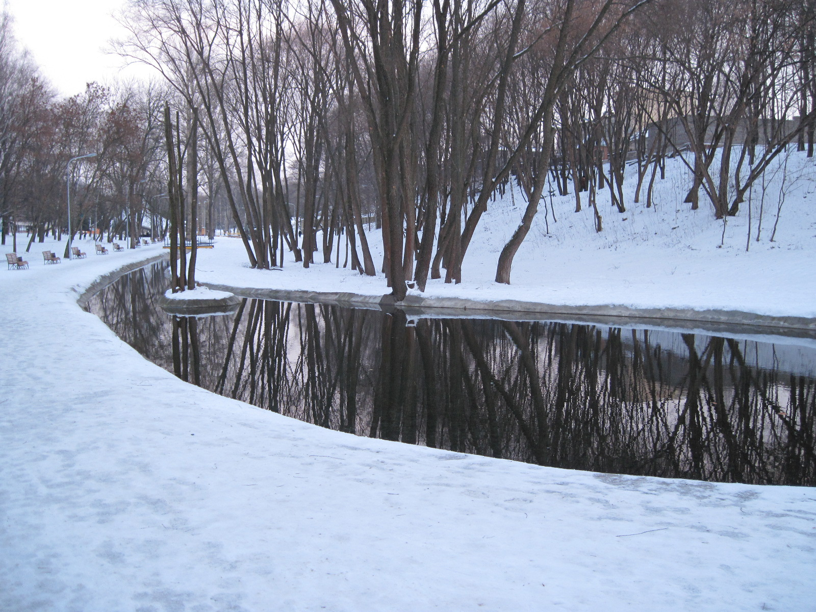 Sarzhinka River, right inflow to river Lopan. Sarzhin Yar, Kharkov, Ukraine.